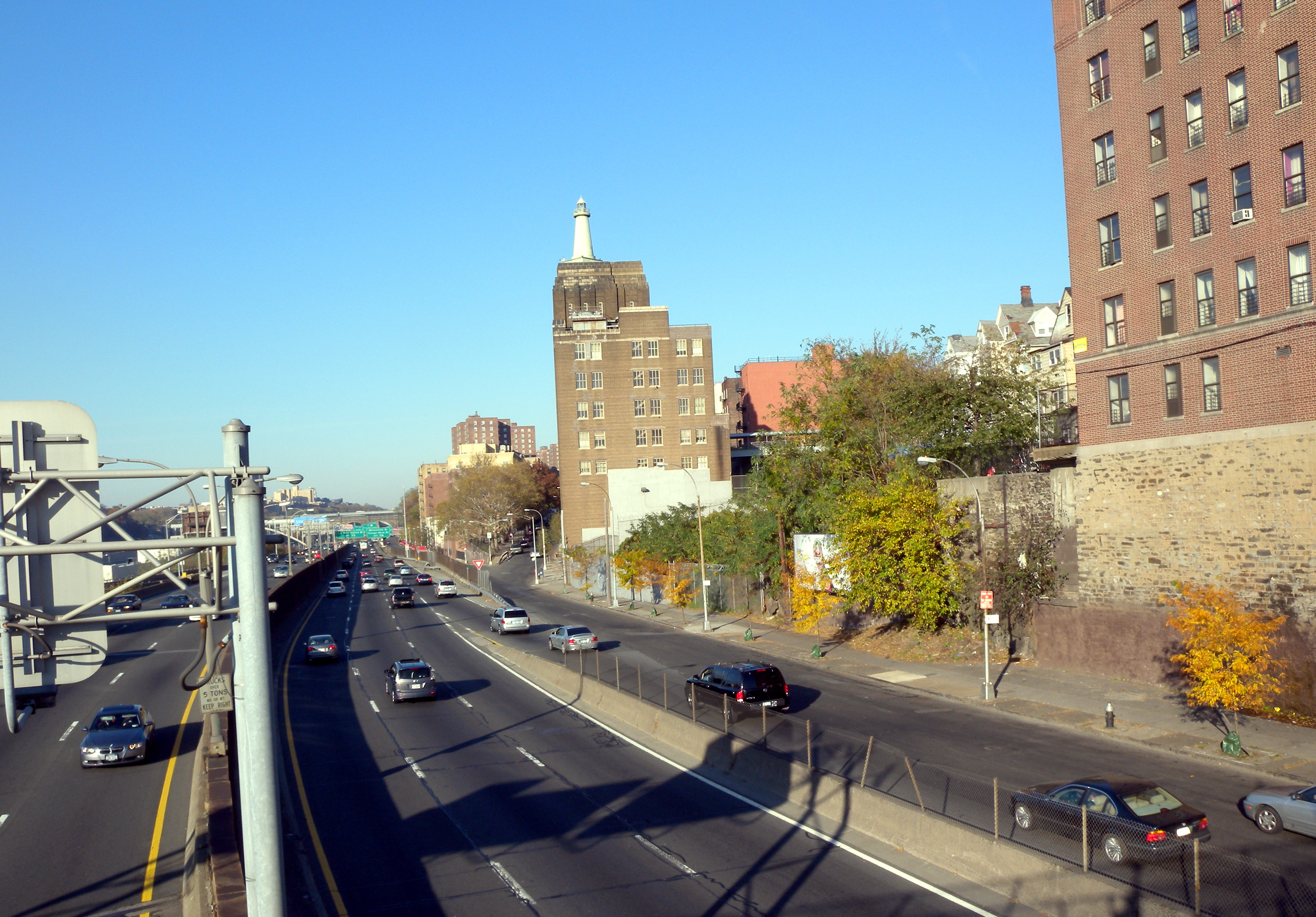 Looking north from 161st Street pedestrian overpass at Major Deegan Expressway on a sunny November afternoon. Lighthouse building in background. EXIF says September due to photographer's error.